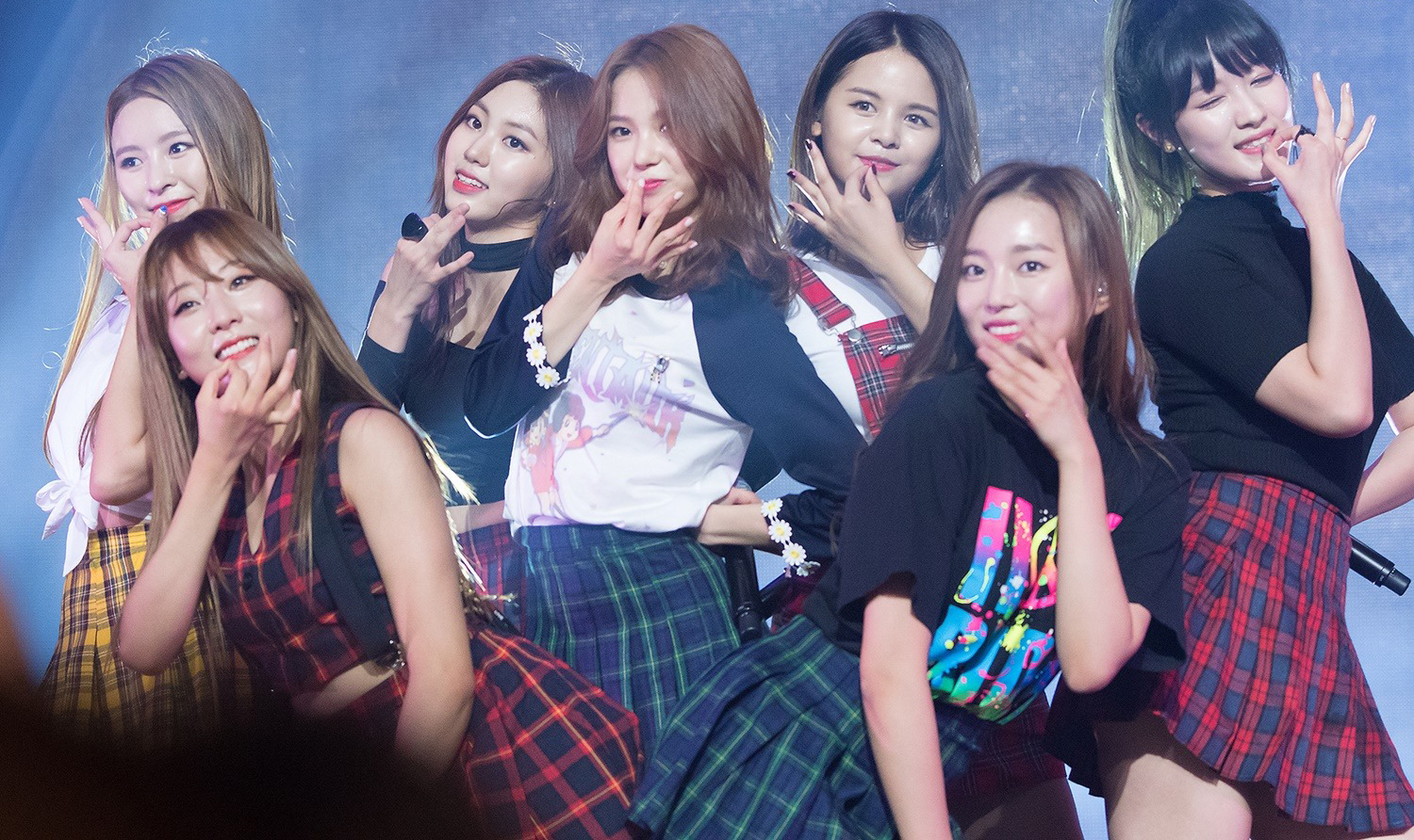 160903 CLC at the Asia Music Stage